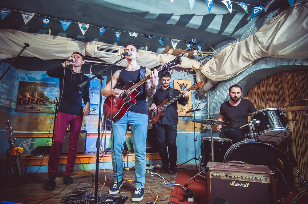 IMIRA's live show at Surf Cafe Free Gen 27.01.2018